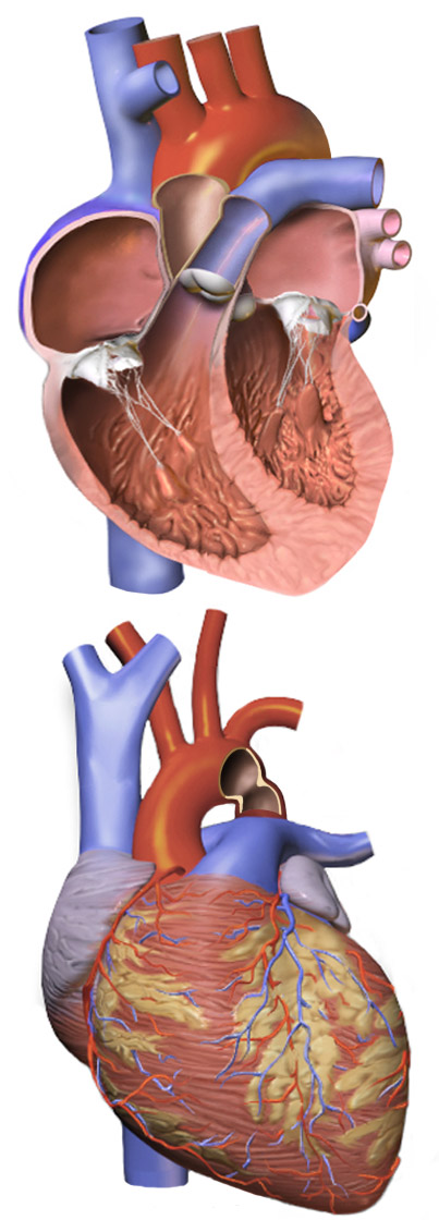 Illustration demonstrating a narrowing of the large blood vessel (aorta) that leads from the heart.